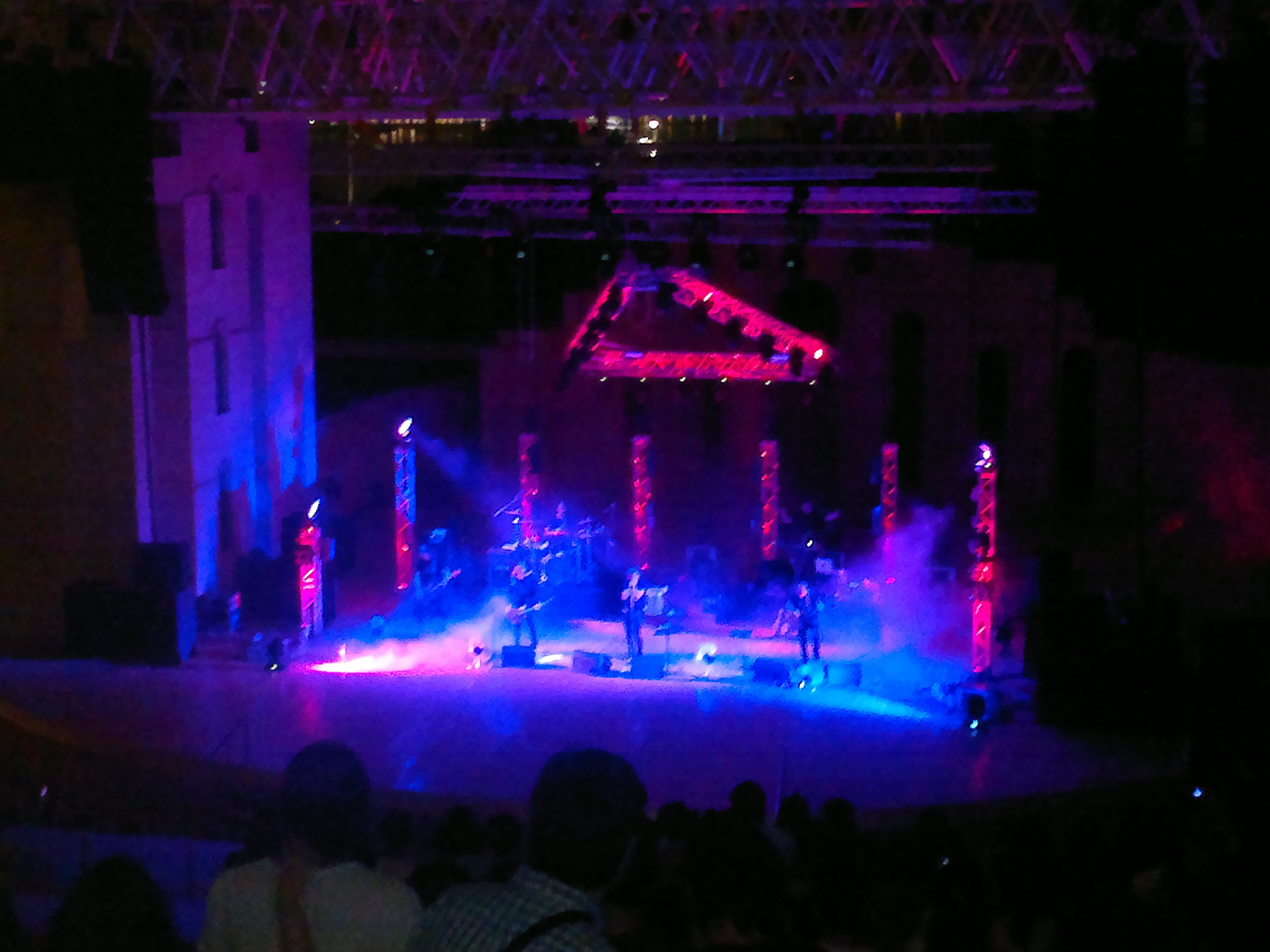 Concert of Bi-2 in Baku (Green Theater)